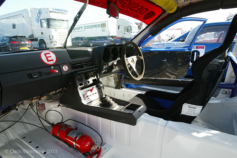 Porsche 924 race car interior BRSCC Porsche Championship, Silverstone, 9 April 2011